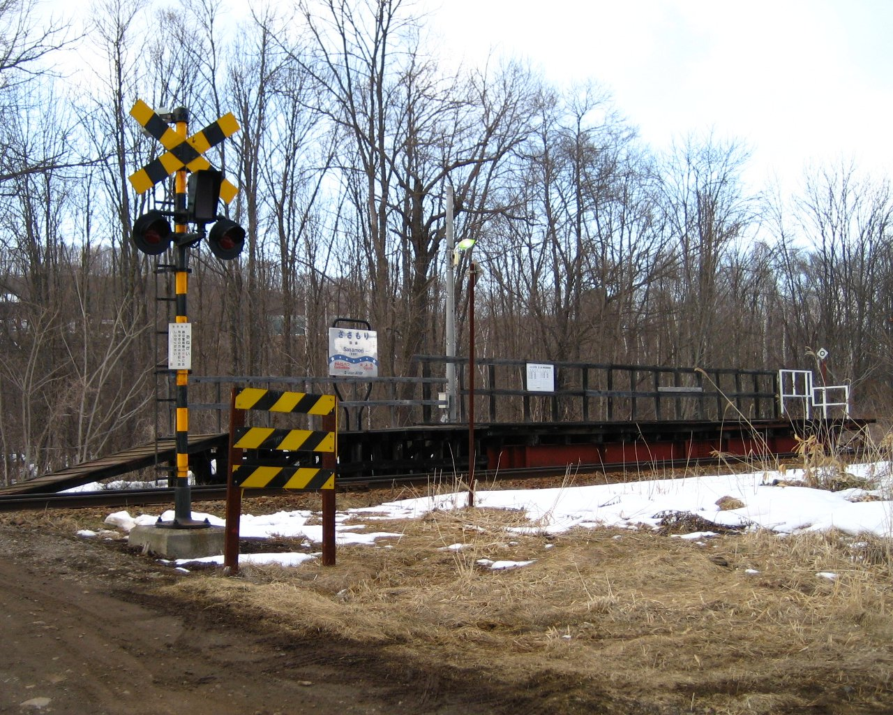 Sasamori station in Hokkaido-Chihoku-Kougen-Railway, "Furusato-Gingasen", in Japan.